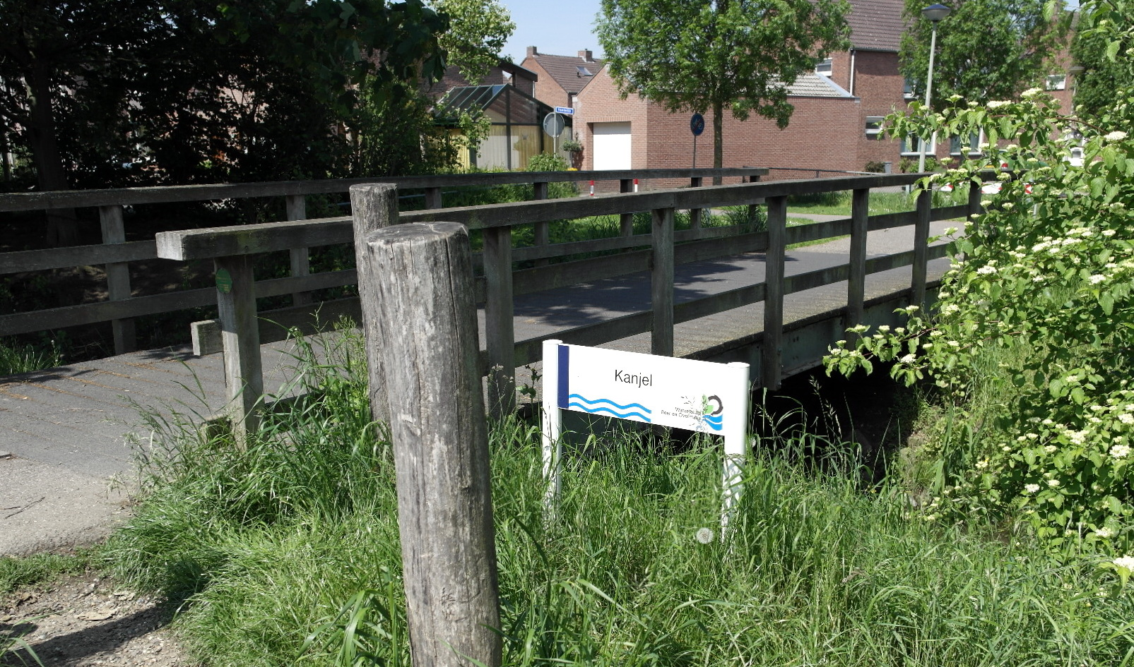 Maastricht, the Netherlands. View of the Kanjel brook in the northern neighbourhood of Borgharen.